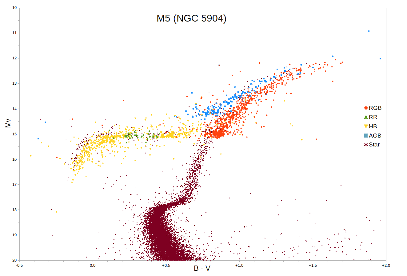 15,000 stars in the Messier 5 globular cluster are plotted on a colour-magnitude diagram. Known red giant branch (RGB), RR Lyrae variable (RR), horizontal branch (HB), and asymptotic giant branch (AGB) stars are marked.